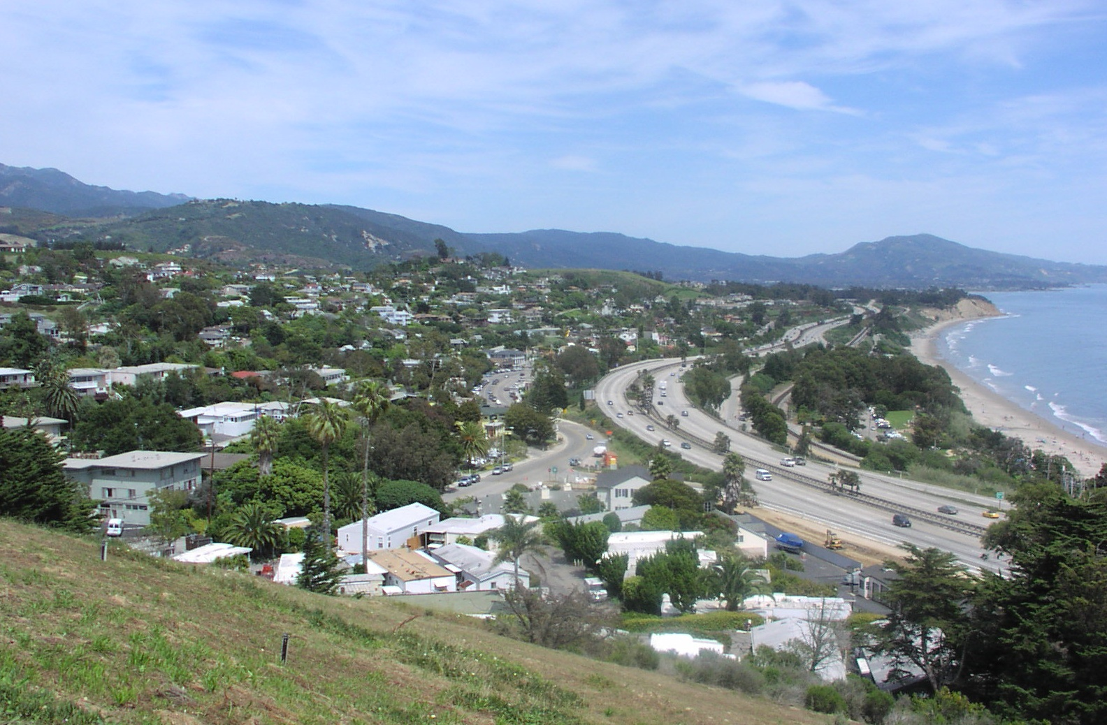 Summerland, CA from the top of Ortega Hill, taken by me, 5/28/06. U.S. Route 101 can be seen on the right hand side of the photograph.